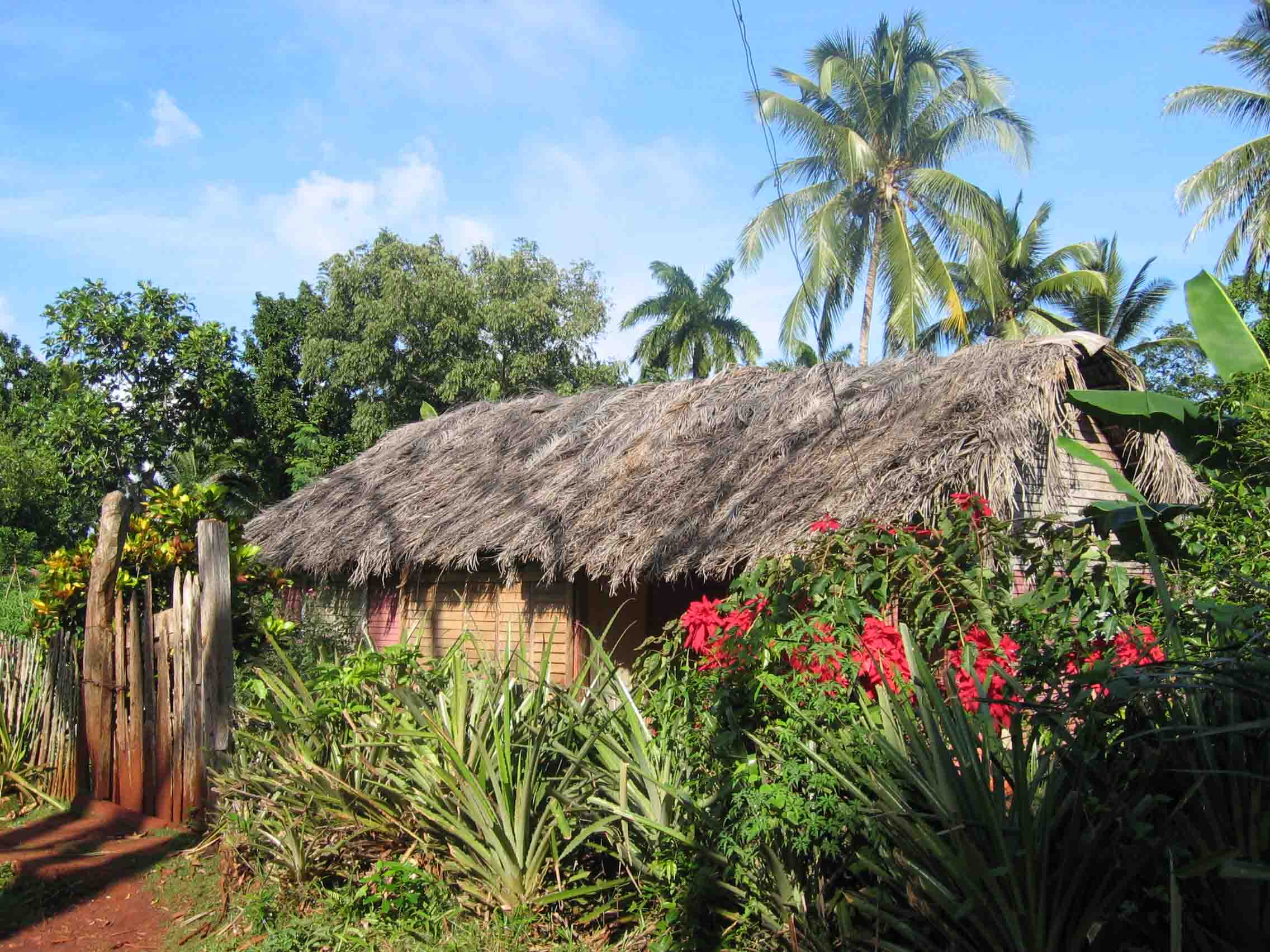 Photograph by Dirk van der Made (User:DirkvdM - for more photos see user:DirkvdM/Photographs). A cabin South of Baracoa, Cuba. 16 December 2003.